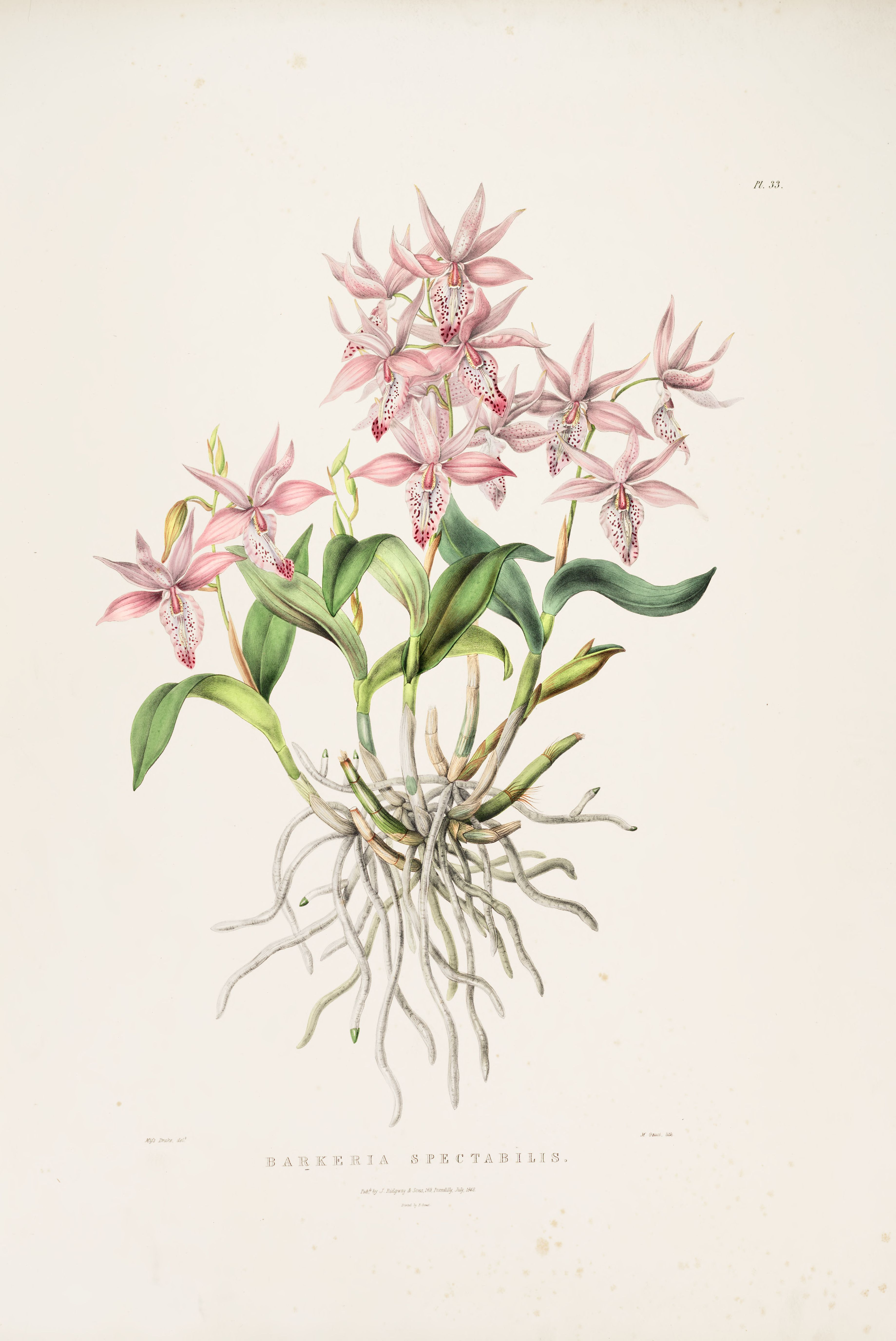 Illustration of Barkeria spectabilis